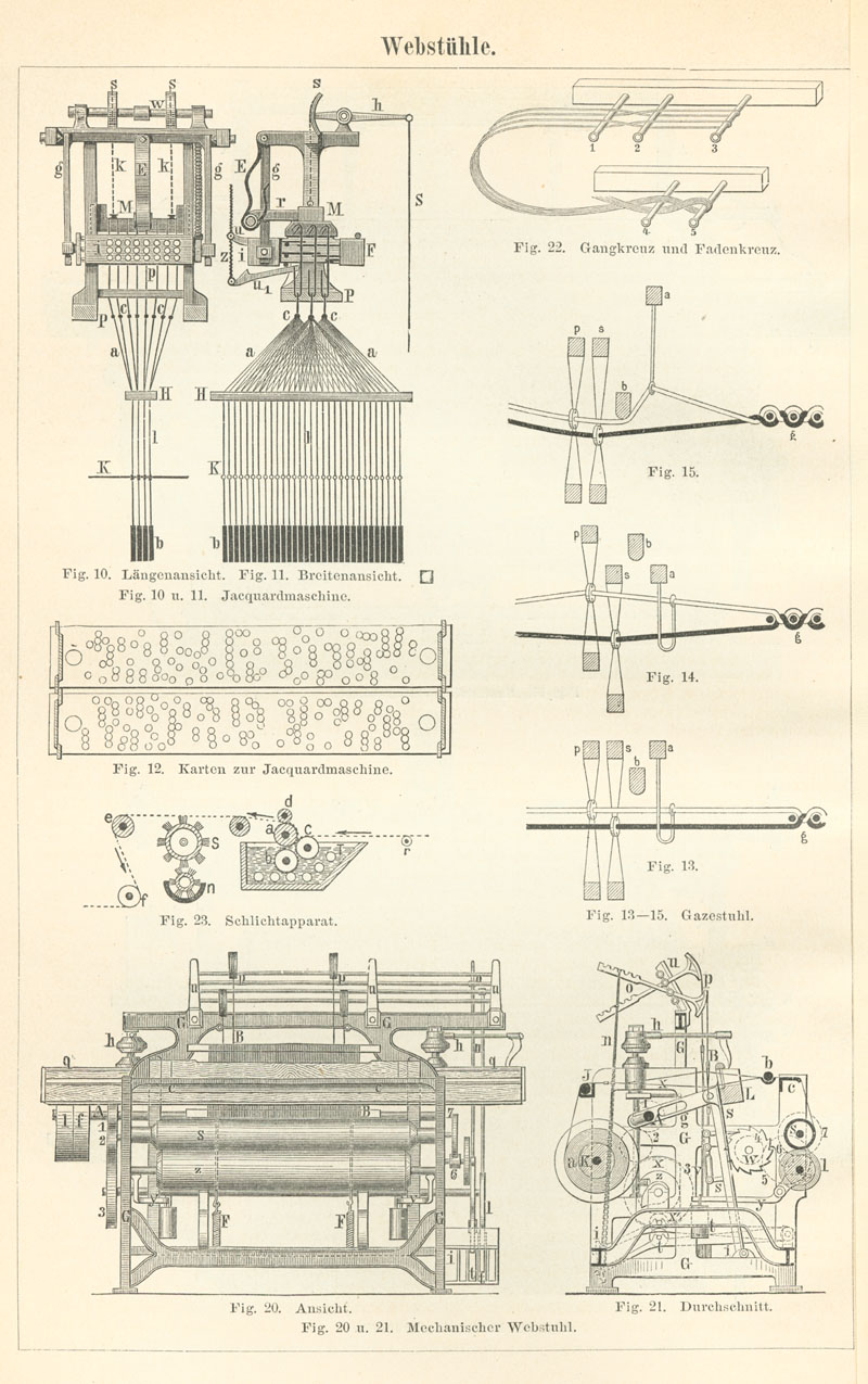 Looms